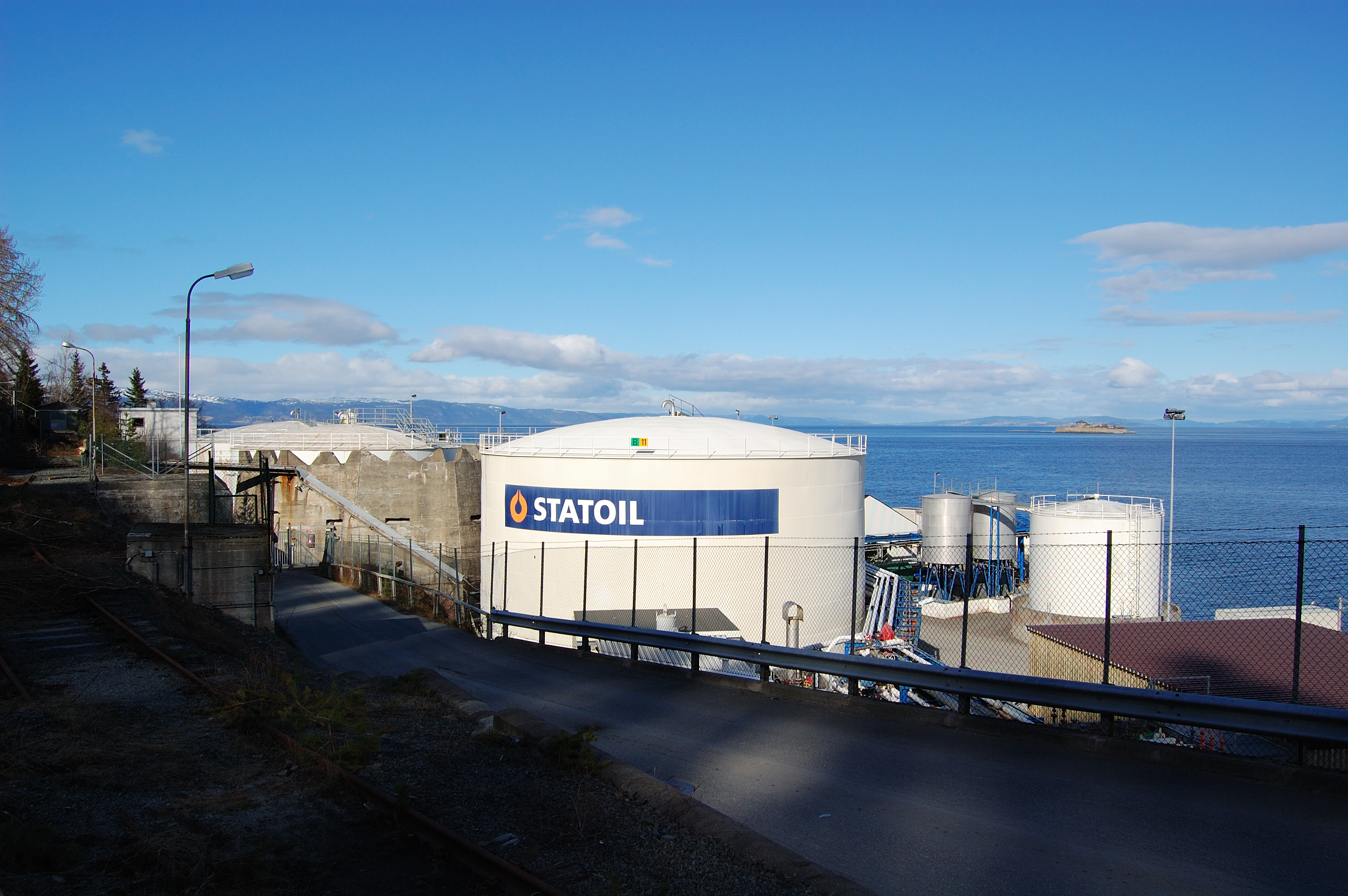 Statoil owned Fagervika oil reservoirs in Trondheim, Norway.